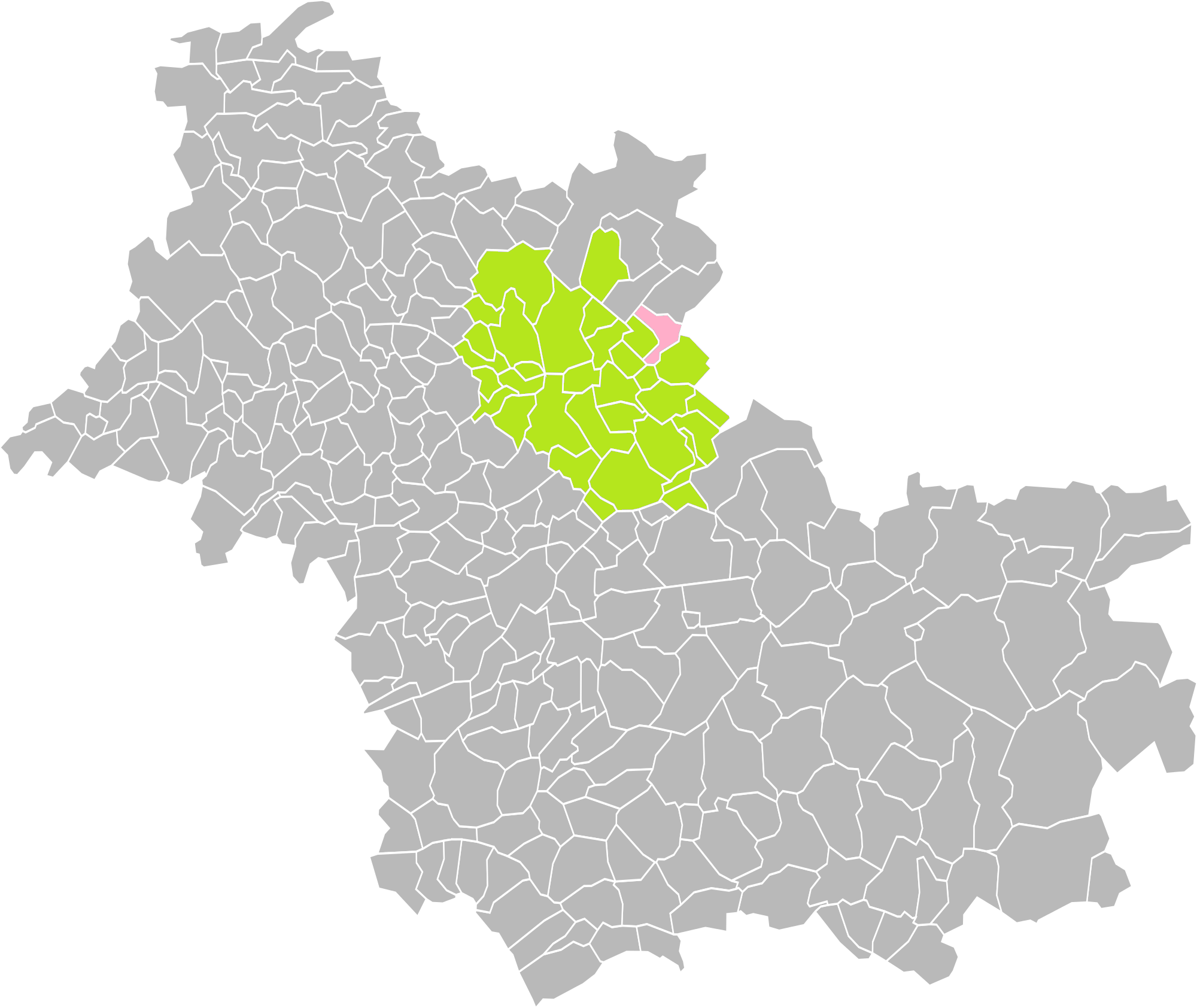 Location of the commune of Lorges in the Communauté de communes de la Beauce-Val de Loire (Loir-et-Cher)